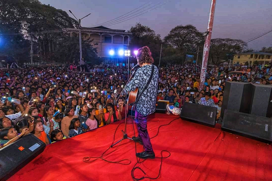 Benjamin Sum is a Burmese singer of ethnic Chin descent. He rose to prominence following his finish as the runner-up on the fourth season of Myanmar Idol.